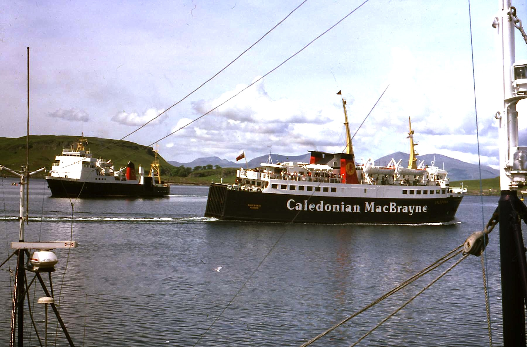 MV Caledonia (right) passing MV Claymore in Oban harbour